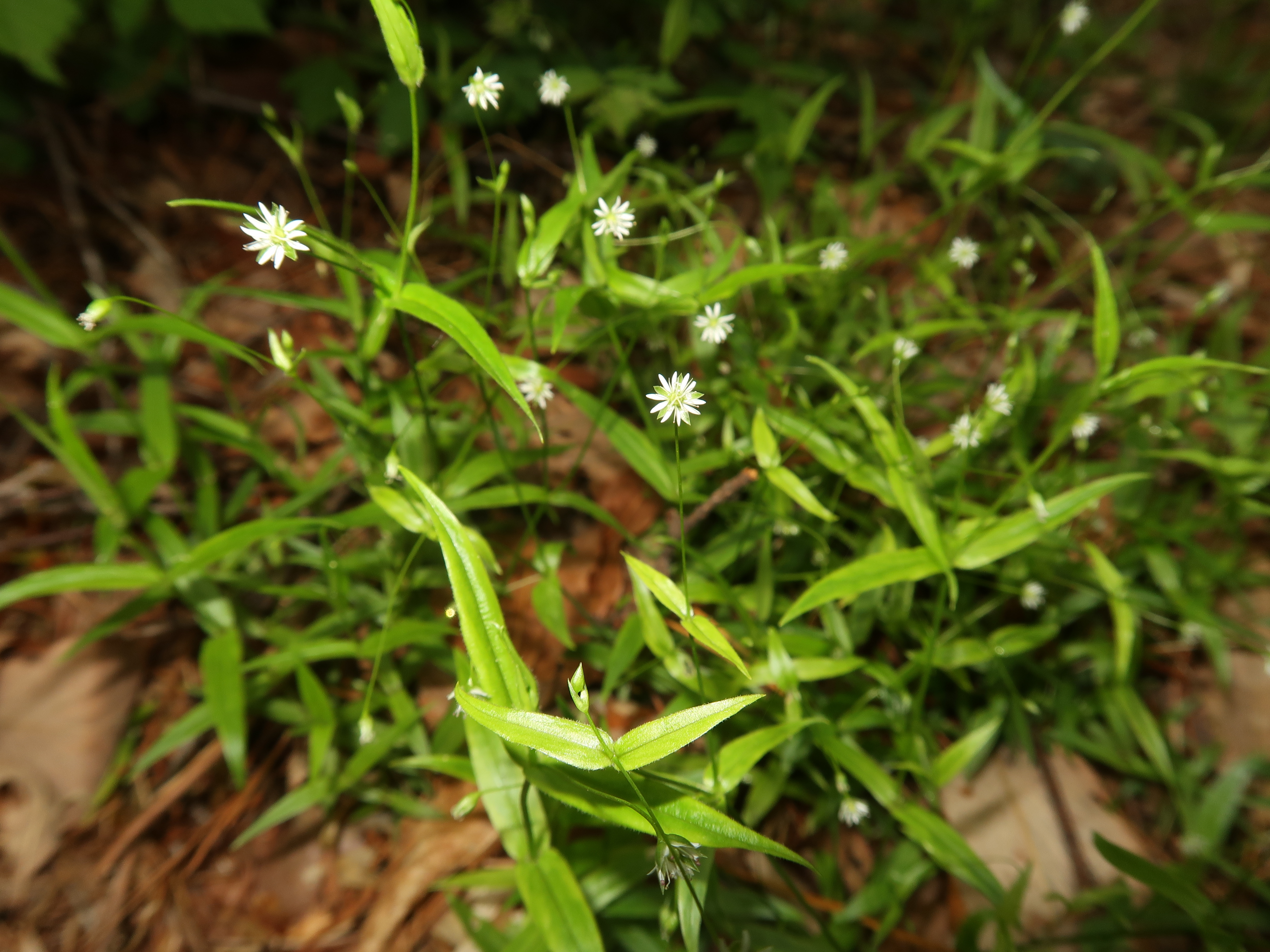 Stellaria fenzlii, Aizu area, Fukushima pref., Japan